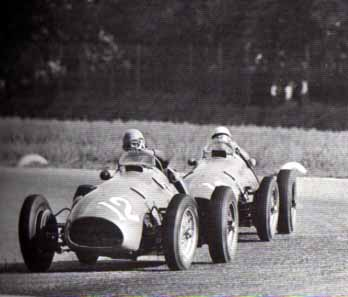 Alberto Ascari and Luigi Villoresi in action at the 1952 Italian GP on 09 September 1952.[1] Both are driving Ferrari Tipo 500s.